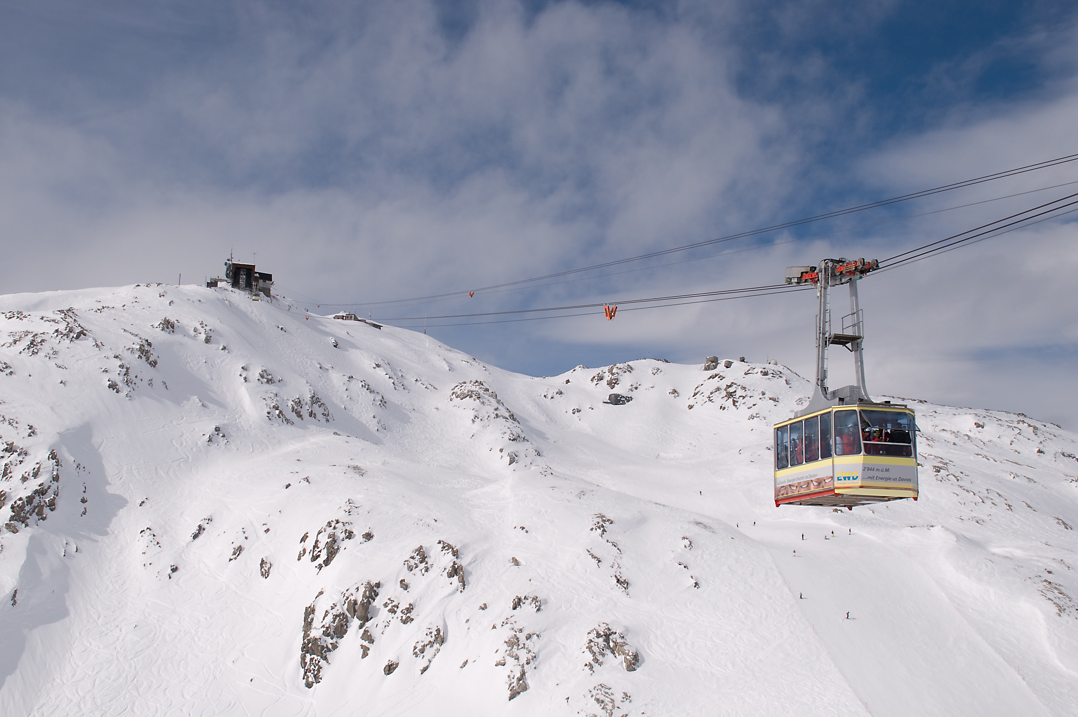 Aerial tramway from Weißfluhjoch to Weißfluhgipfel (Graubünden, Switzerland)